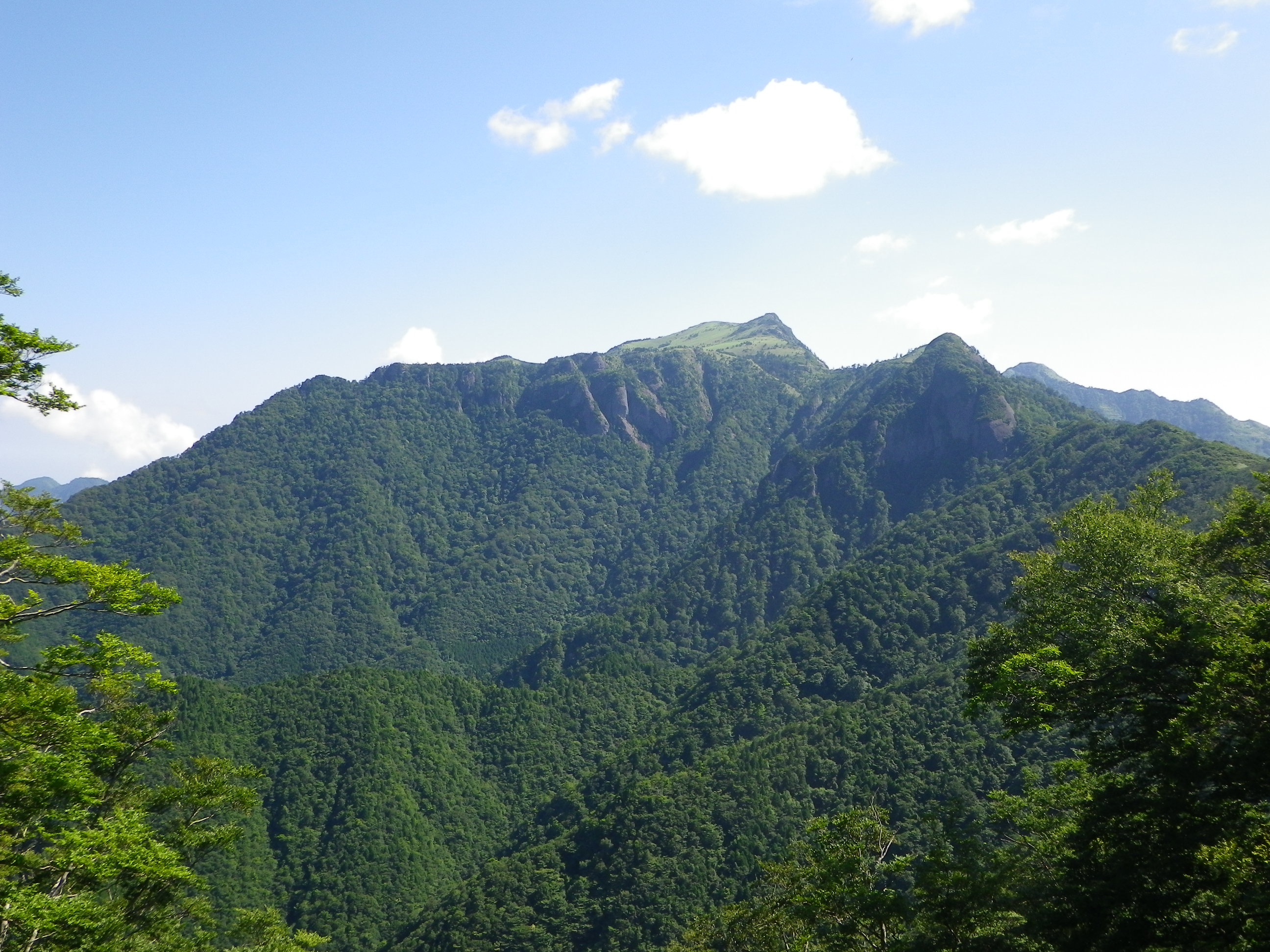 Mount Kamegamori as seen from the SSW.